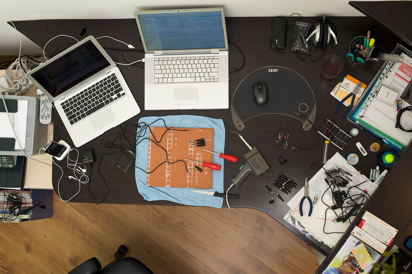 The Czech expedition Bergans Baikal 2010 with an aim to cross the lake Baikal lengthwise took place in February and March 2010. This picture shows how the communication technology was prepared.